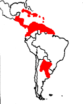 Geographic Distribution of Mansonella ozzardi Infections